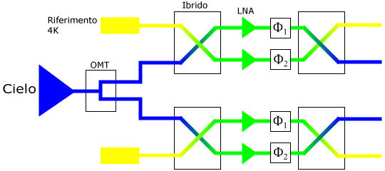 Planck surveyor LFI radiometer